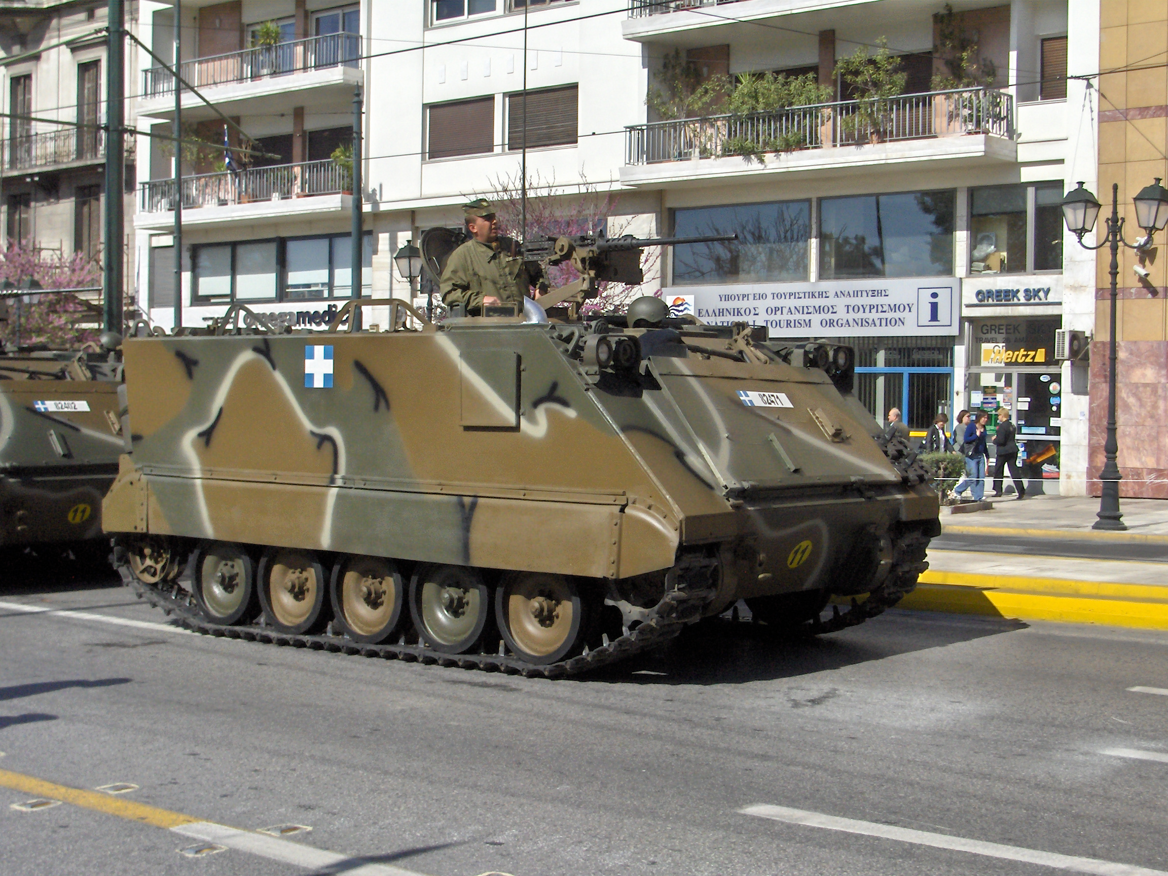 Hellenic Army armoured vehicle at the parade in Athens.